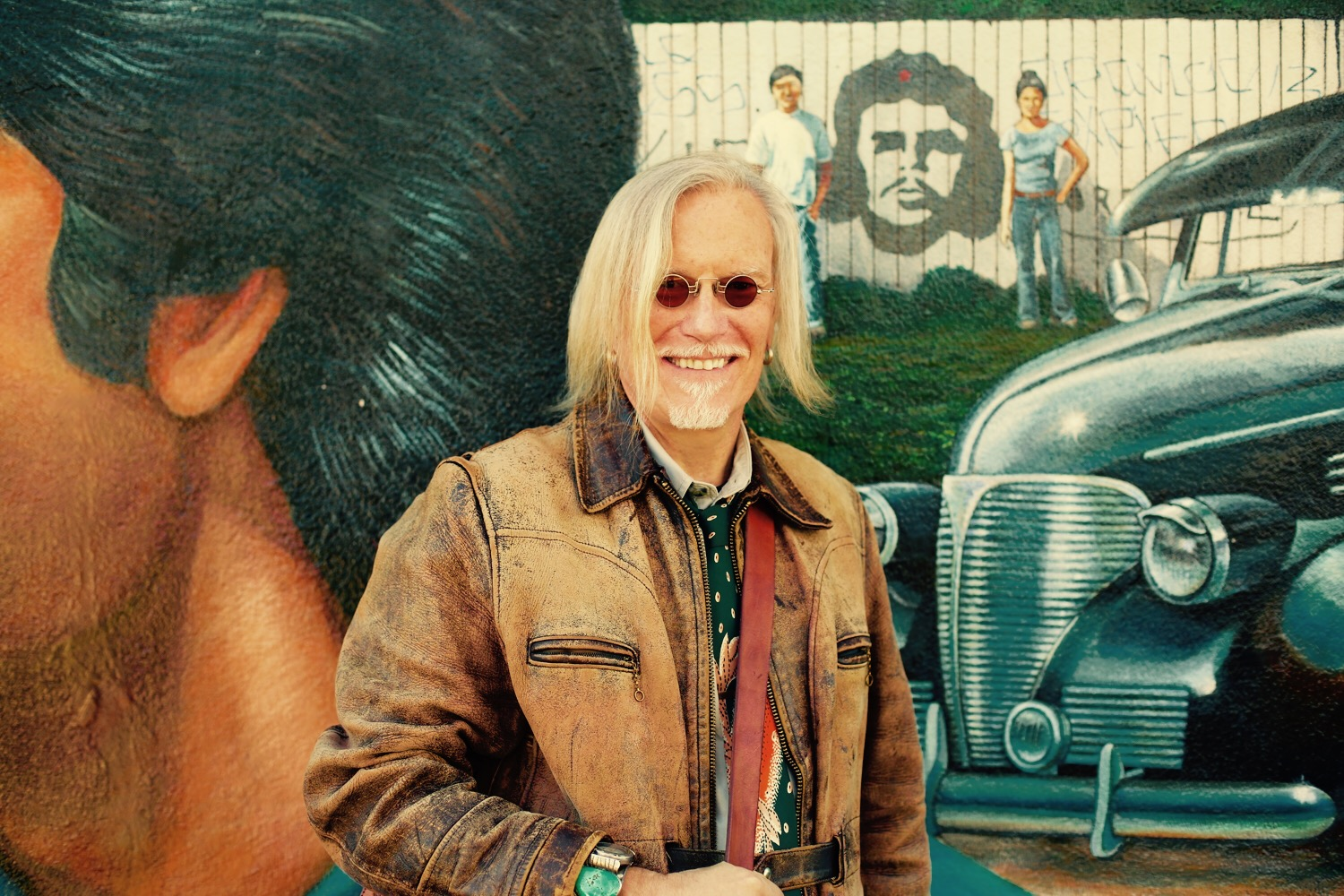 Photo of Professor Peter McLaren